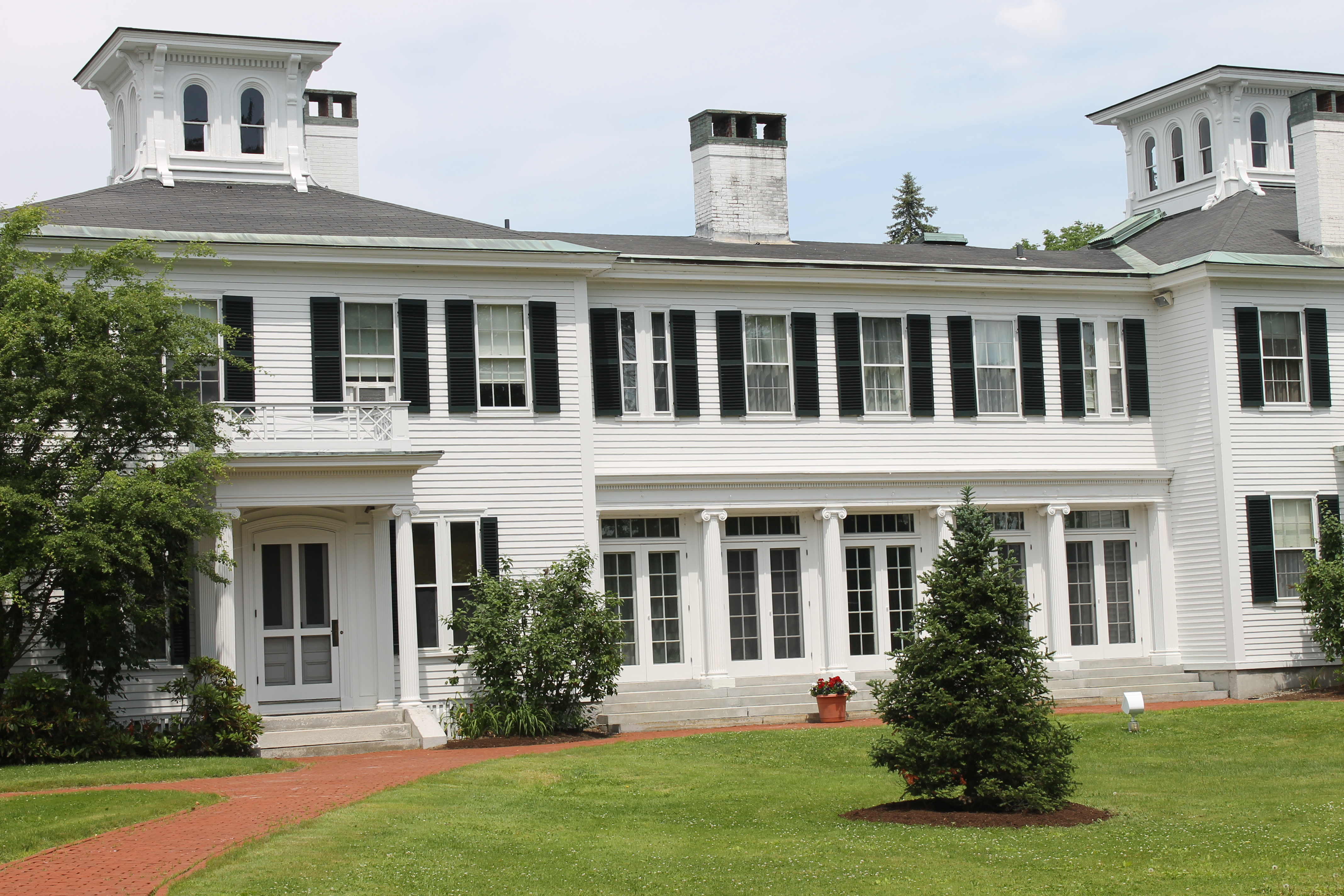 I took photo of Blaine House in Augusta, ME, with Canon camera.